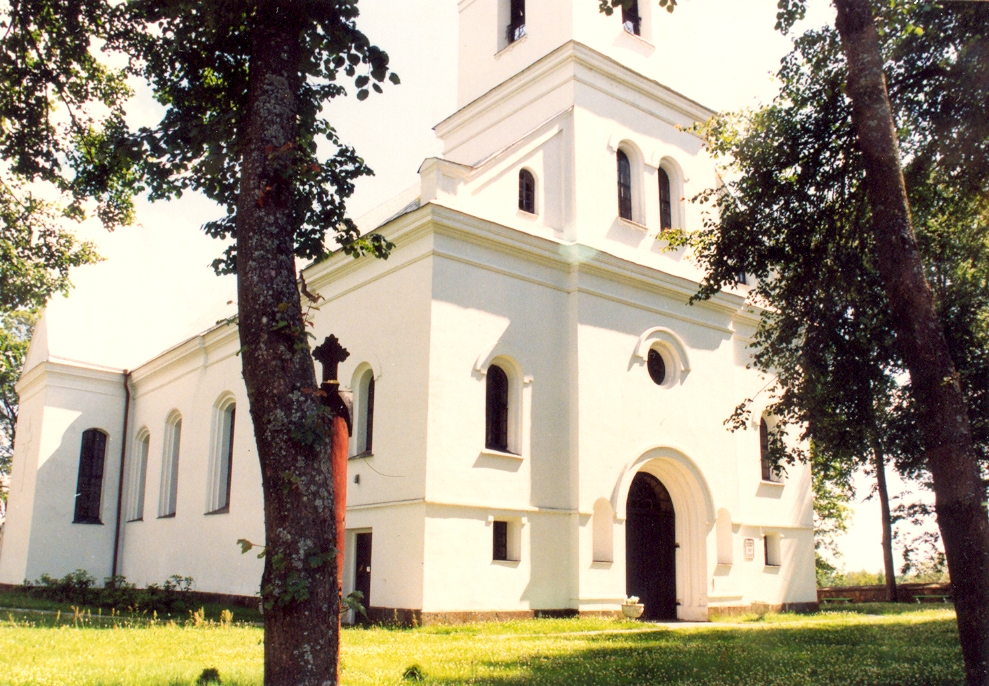 Vyžuonų catholic church, Lithuania